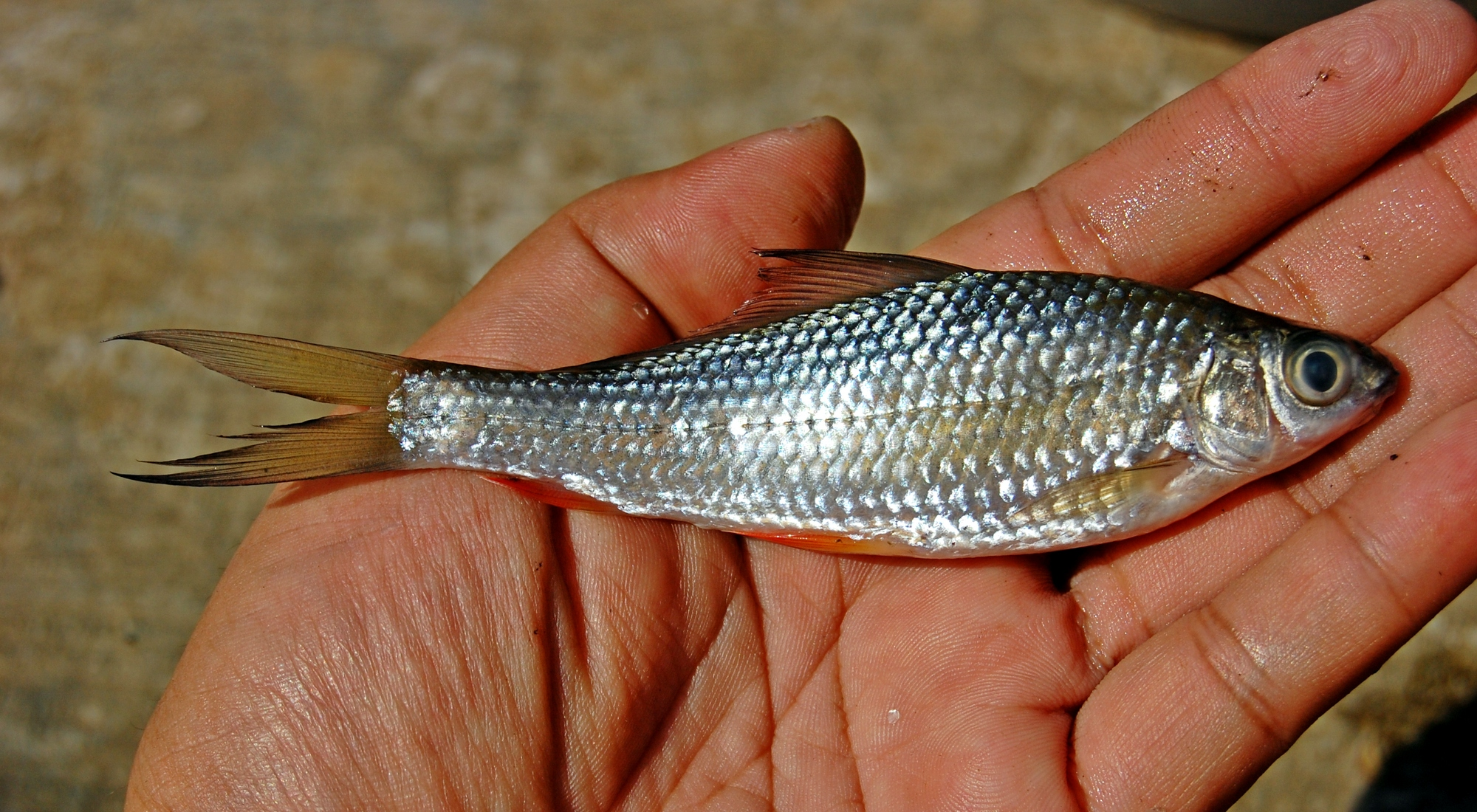 Above: Labiobarbus leptocheilus, 105 mm SL (standard length), right side. From Kebumen, Central Java, Indonesia.